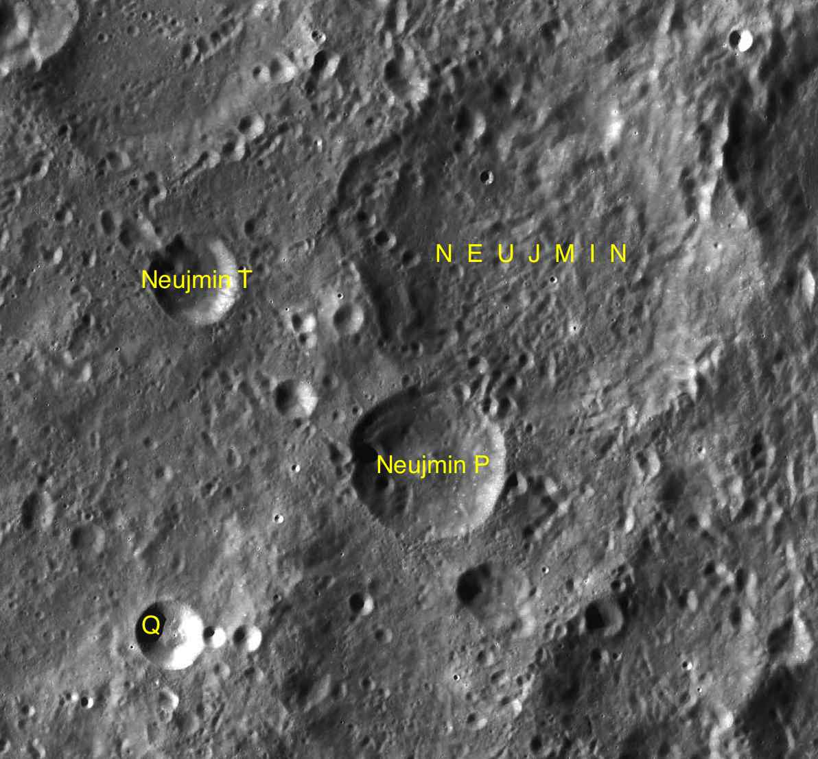 Part of the chart LAC-101 used for the presentation